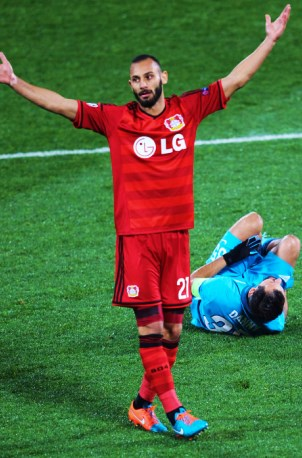 Ömer Toprak